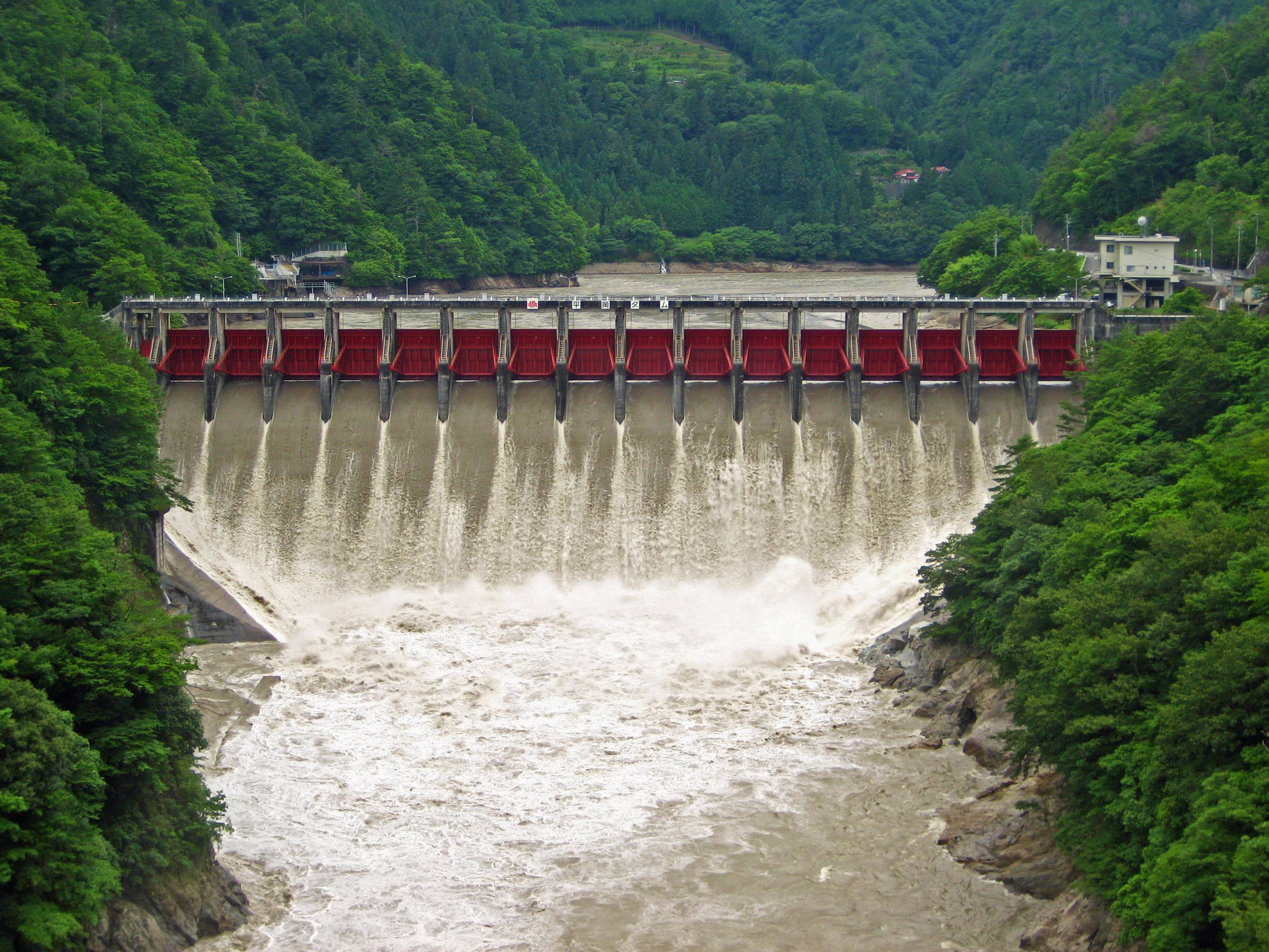 Hiraoka Dam.